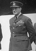 Air Marshal Sir Roderick Carr in his Royal Air Force uniform.